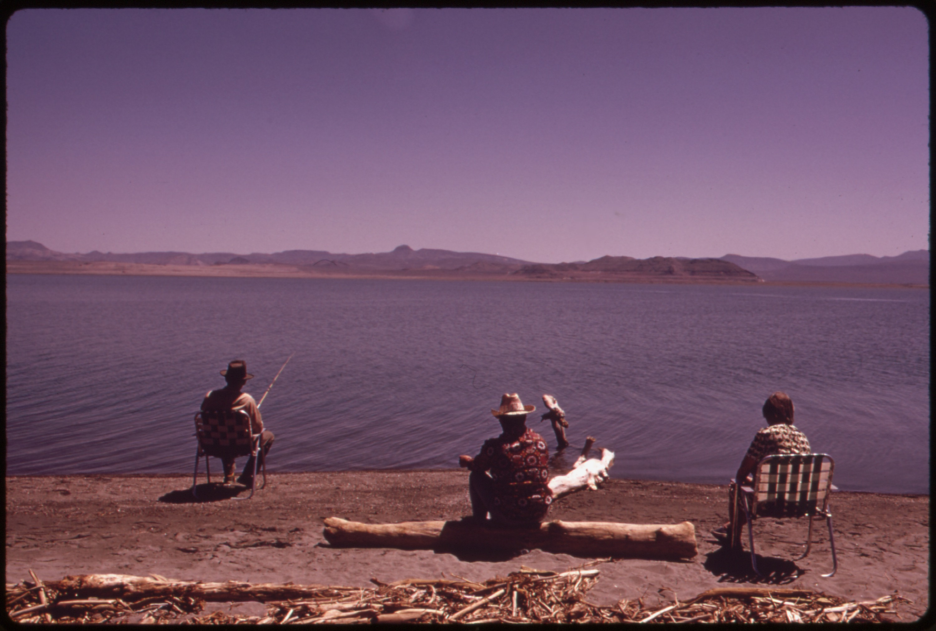 General notes: Washoe County, Nevada.